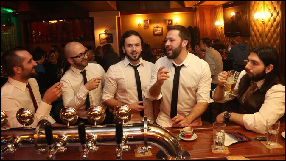 tribute to indexi